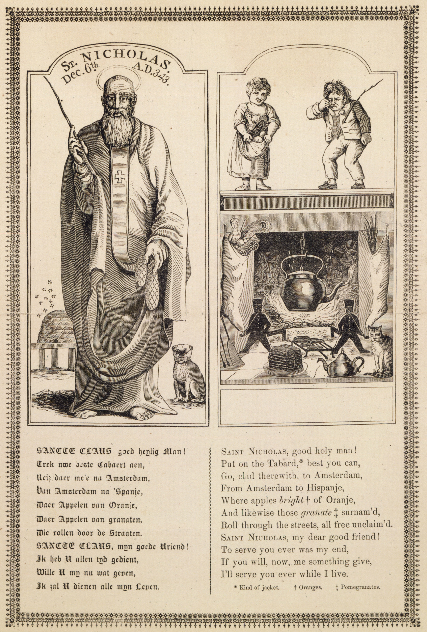 Print of St Nicholas by John Pintard (1810). Picture documents possibly for the first time a relationship between St. Nicholas and Spain at 1810 or sooner.